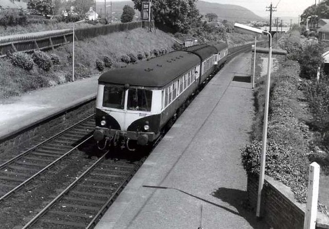 An NIR train of former GNR railcars at Lambeg railway station, Co. Antrim, Northern Ireland. The train is the the 11.45 hrs service from Belfast Great Victoria Street to Lisburn. The vegetation has grown considerably in the last 37 years despite being cut back during rebuilding of the line in 1996.